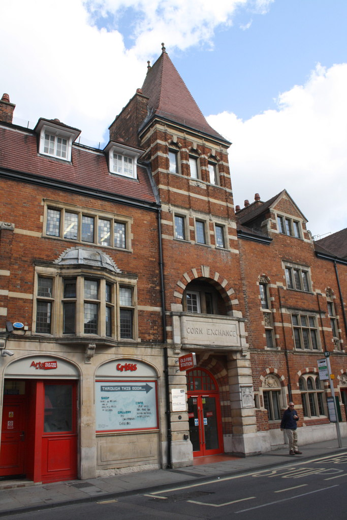 Old Fire Station (formerly Corn Exchange), George Street